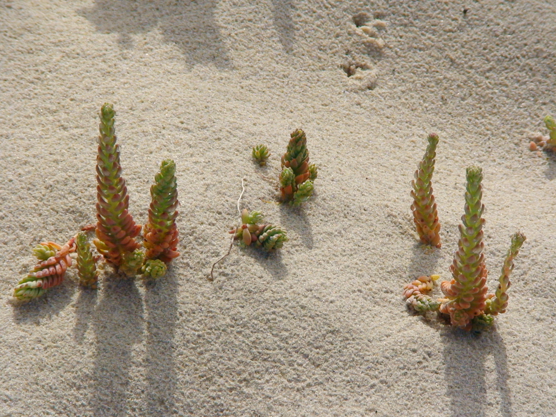 Pale Stonecrop Sedum sediforme growing on sand dunes. Baleal, Peniche, Portugal.